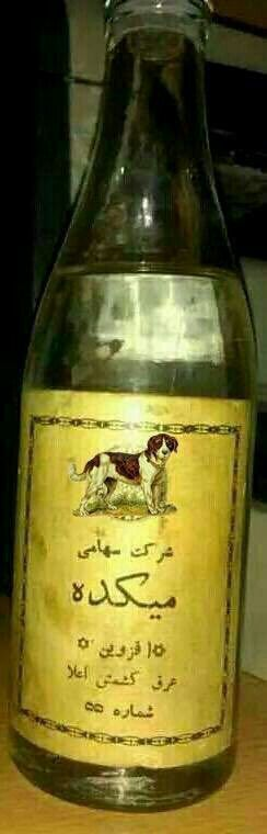 An old picture of Aragh Maykadeh